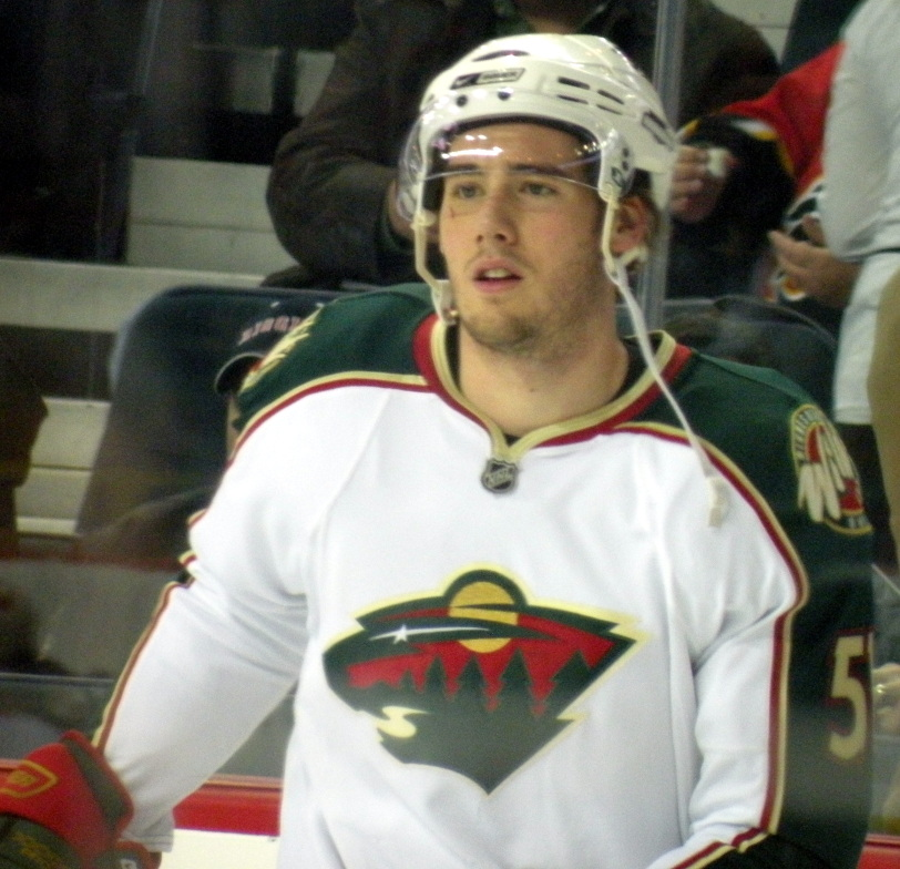 Minnesota Wild forward James Sheppard during warm-up prior to a National Hockey League game against the Calgary Flames in Calgary.